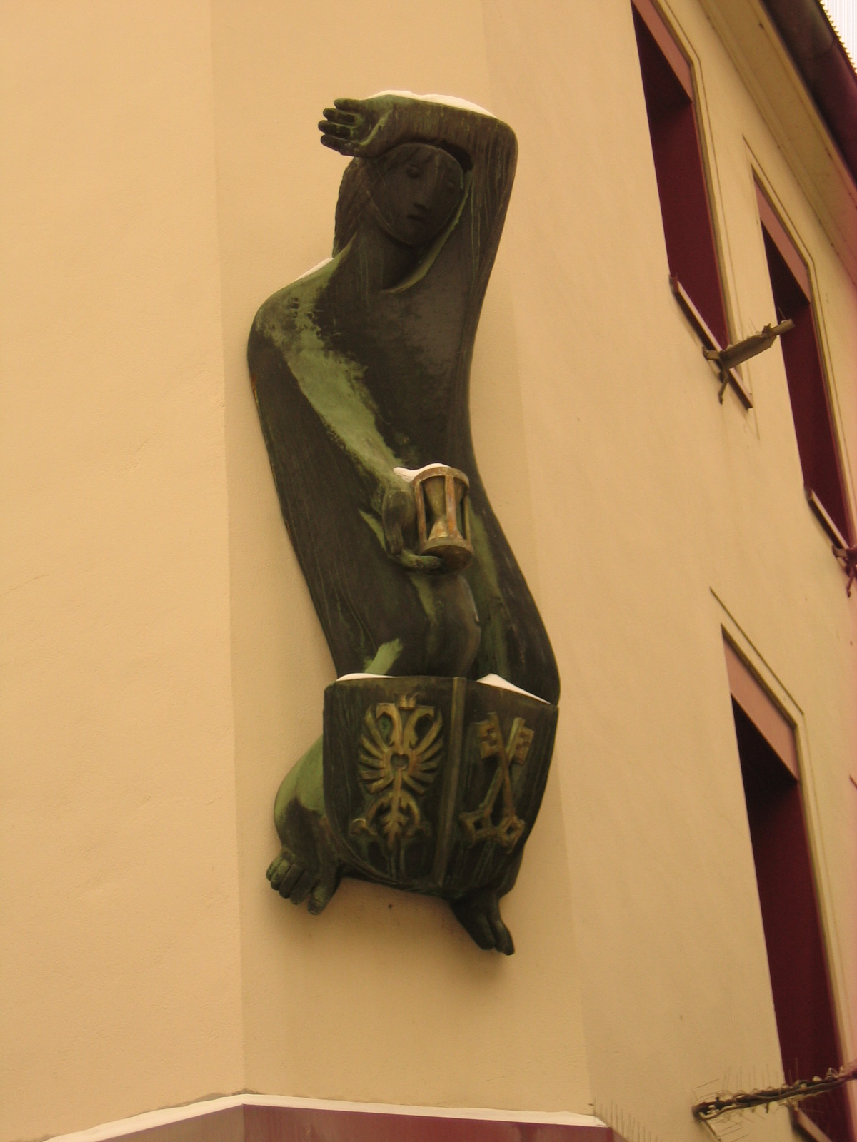 Sculpture in Minden, District of Minden-Lübbecke, North Rhine-Westphalia, Germany.